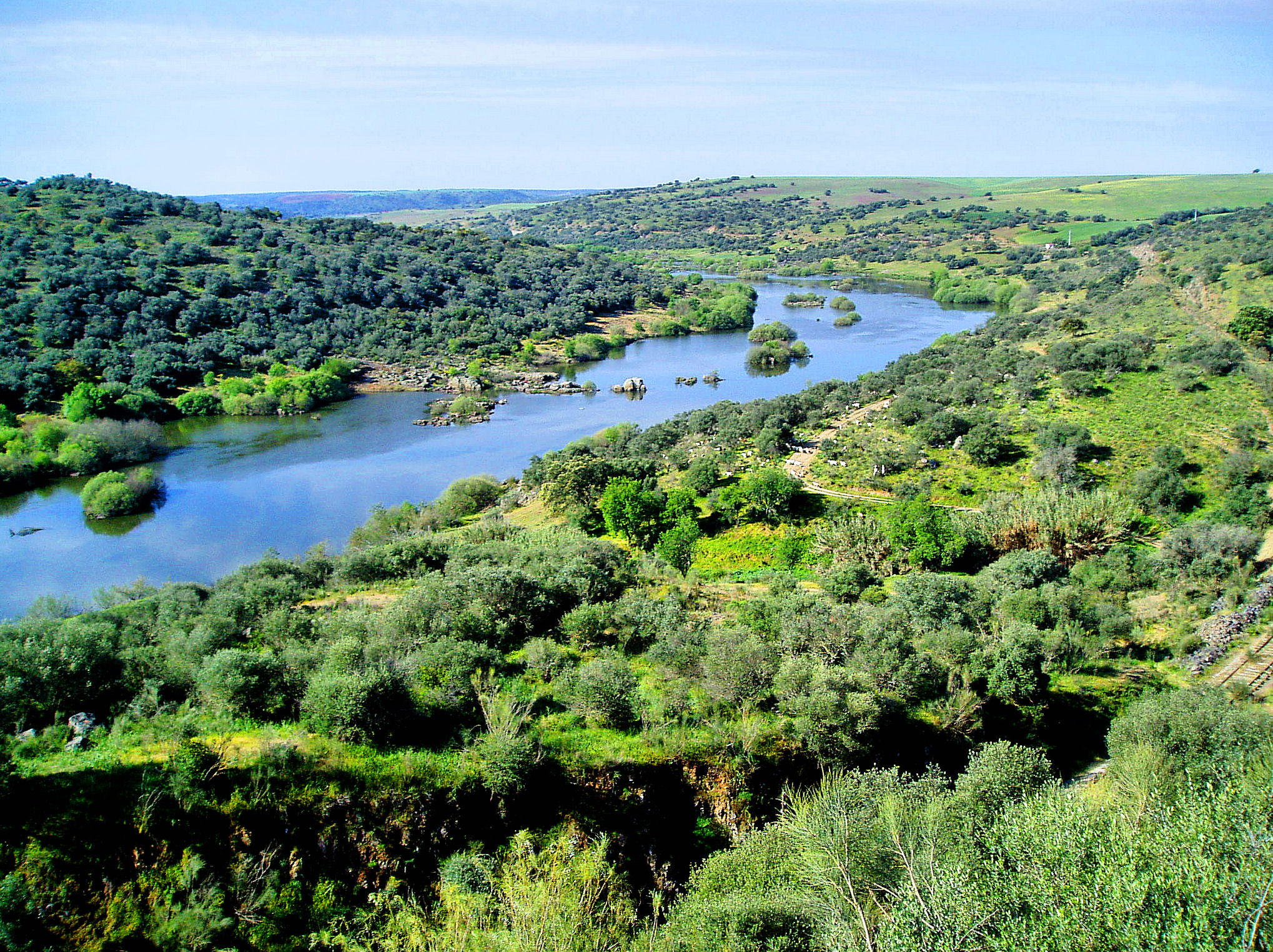 The Guadiana river near Serpa, Portugal. This is a photography of a protected area of Portugal indexed in the World Database on Protected Areas with the ID: 143012 (WDPA)